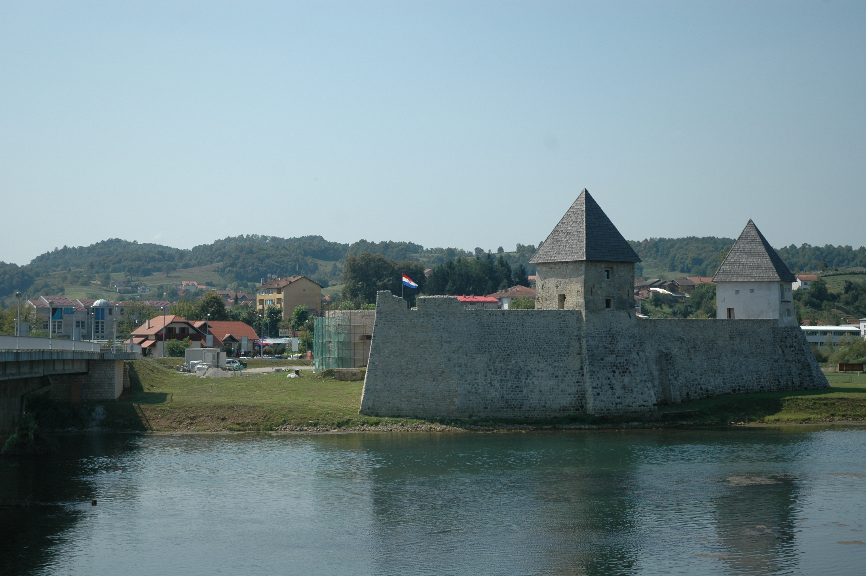 Hrvatska Kostajnica castle